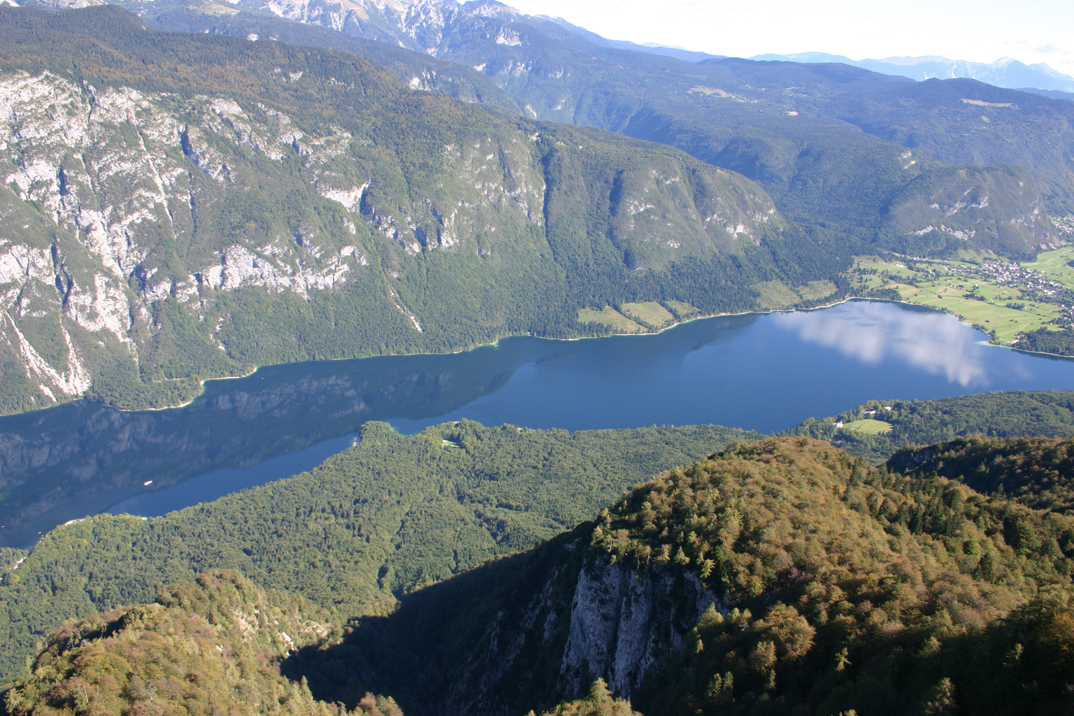 Lake Bohinj, Slovenia